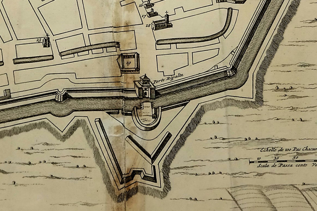 Crema town plant made by Pierre Mortier, particular of Porta Ripalta, demolished in XIX century, etching, Amsterdam, 1708